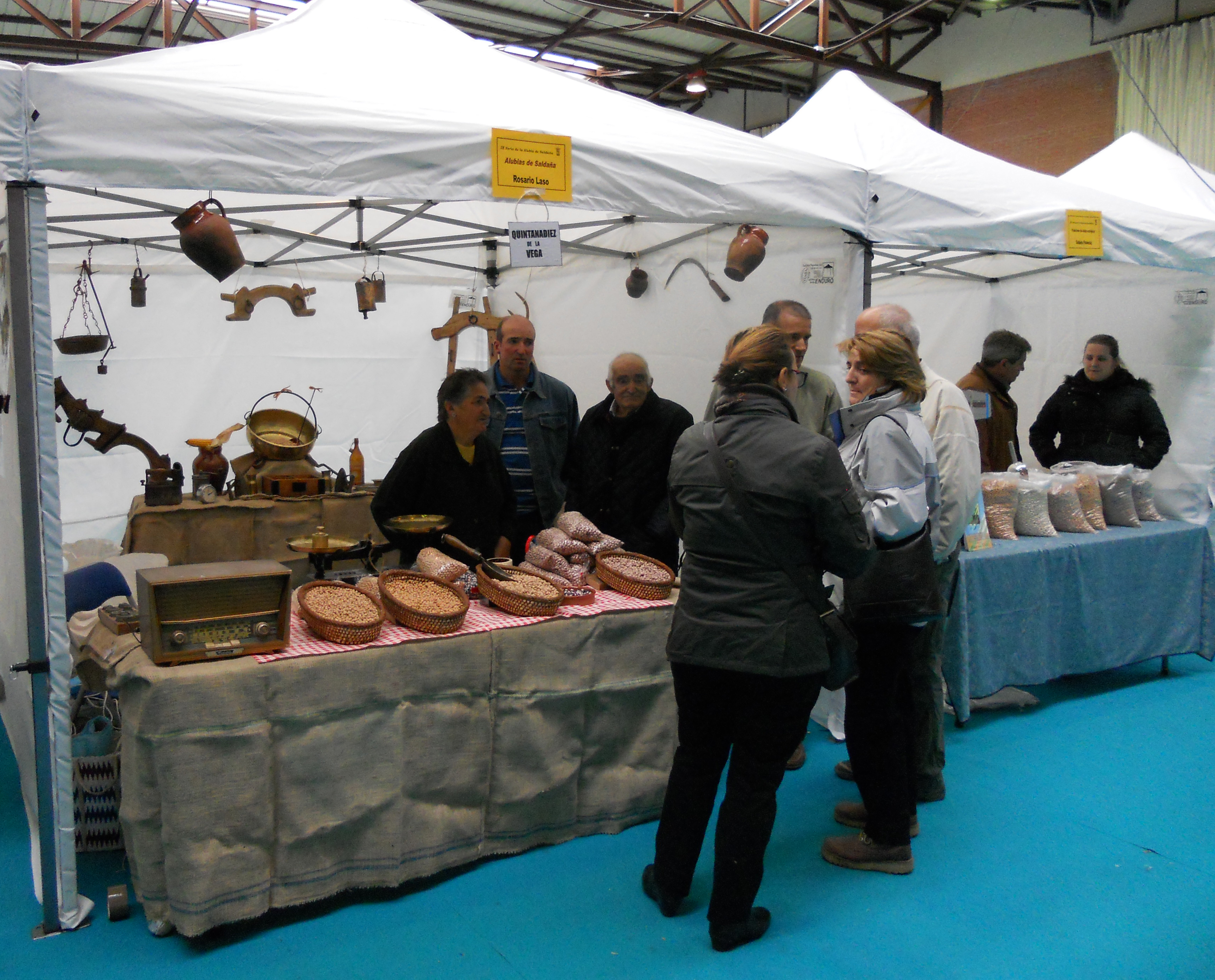 White beans of Saldaña (Palencia, Castile and León).